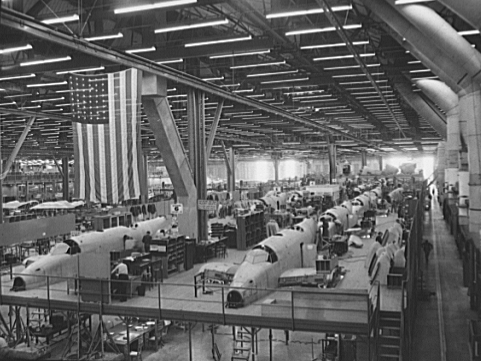 Lockheed Ventura bombers built for the Royal Air Force under conctruction at the Lockheed Vega division, Burbank, California (USA), in June 1941. Original caption: "Ventura bombers. When these birds of war are full fledged they will be assigned to chores in which Tokyo, Berlin, and Rome will have an active and painful interest. These planes in the jigs of a large Western aircraft plant are Ventura bombers in the making. Overhead cranes move the ships from station to station of the assembly line. Vega Aircraft Corporation, Burbank, California."